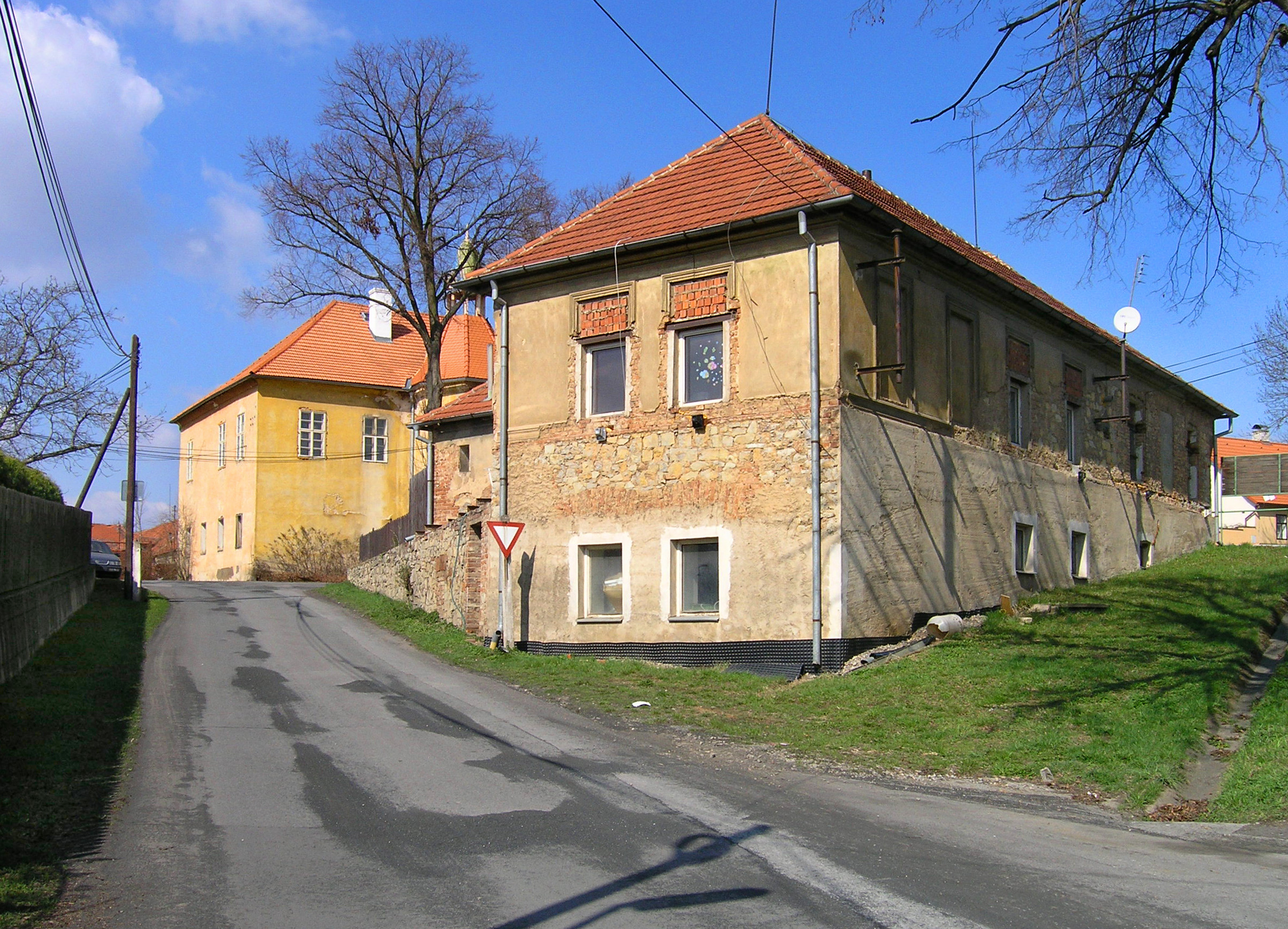 Municipal office in Lužce village, Czech Republic